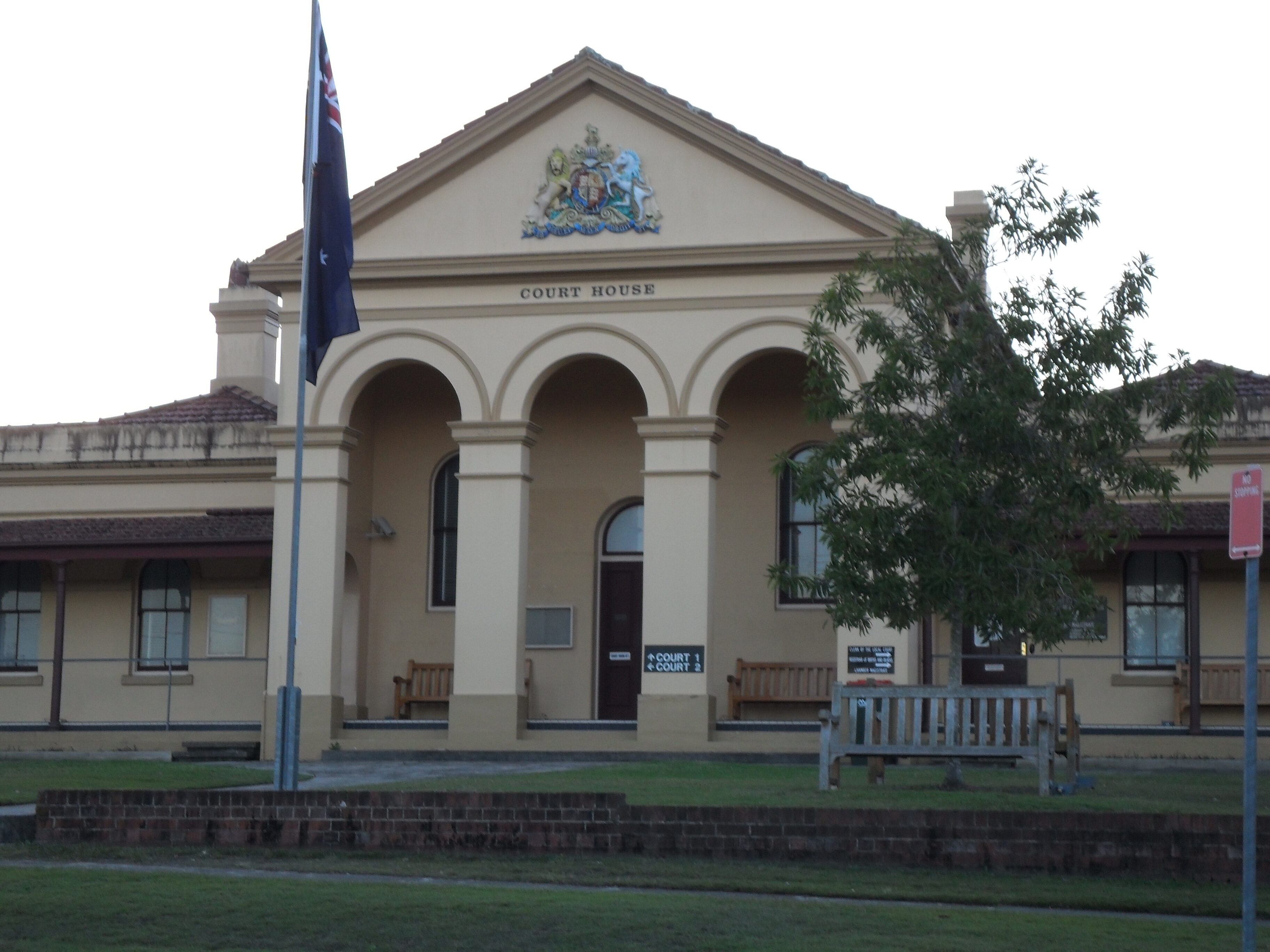 Courthouse in Albert Street, Taree, New South Wales (NSW), Australia